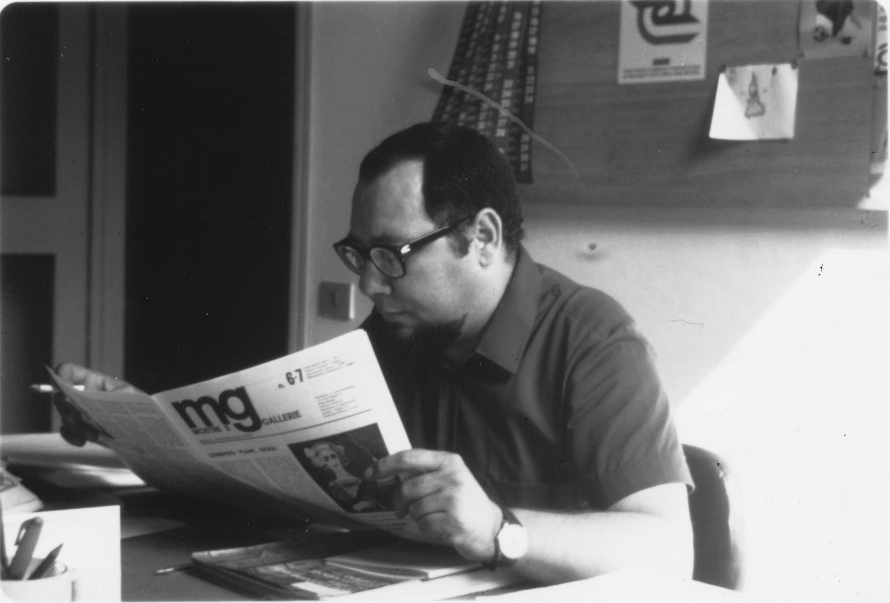 Piero Giangaspro in Mostre&Gallerie's office (Viale Cogni Zugna, Milan, Italy), 1970-71.